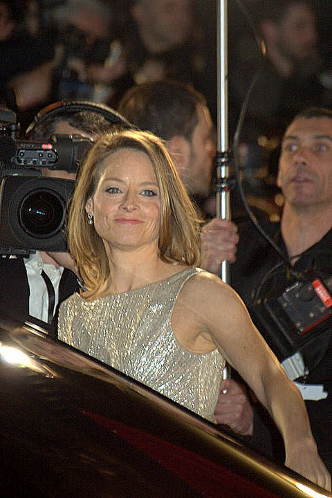 Jodie Foster at the César awards ceremony